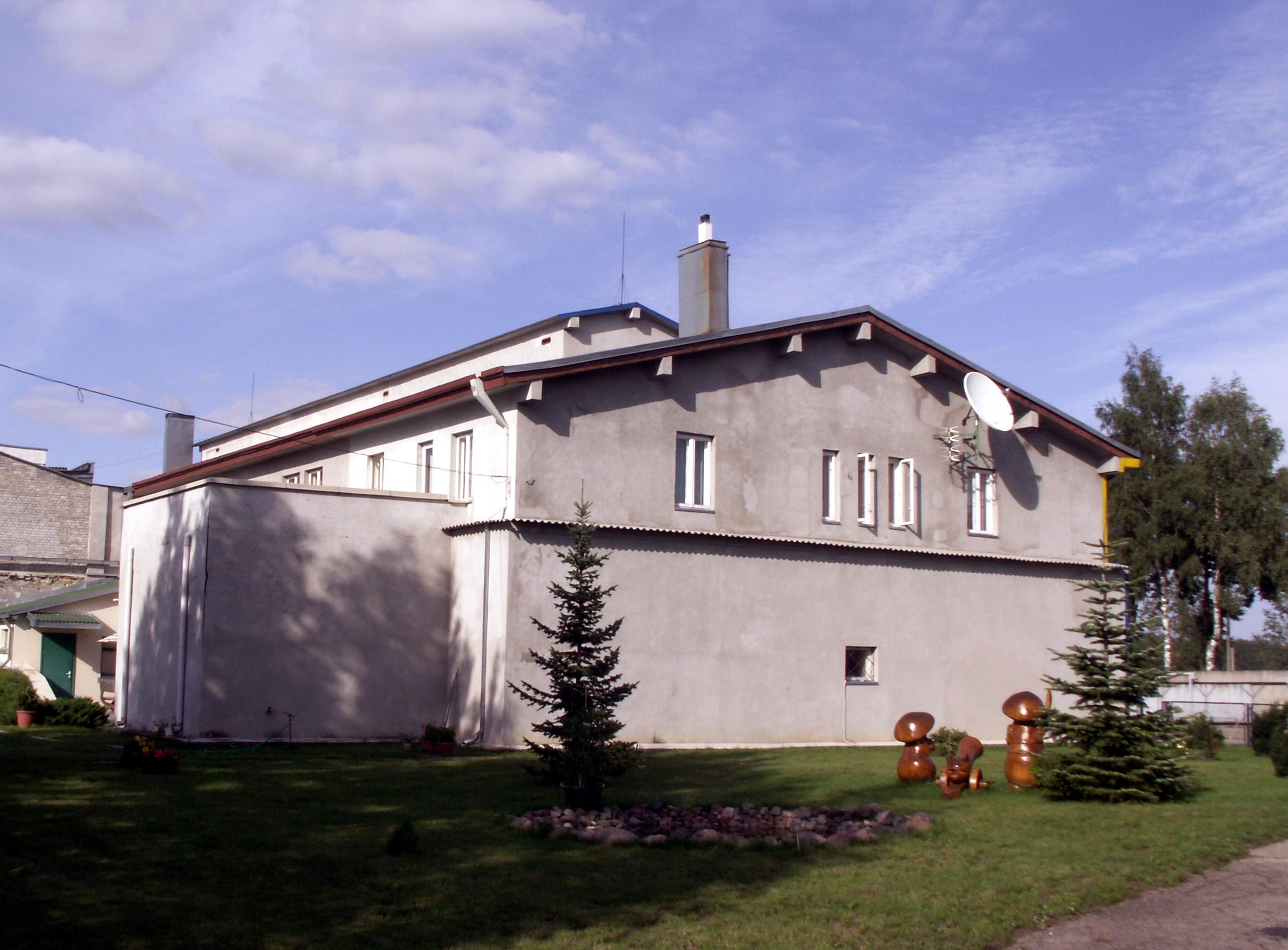 Rėkyva, Bačiūnai electicity stacion, Lithuania